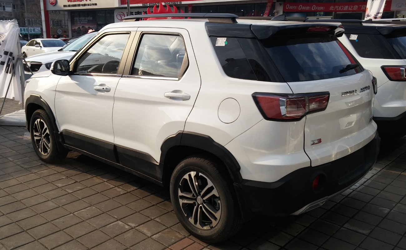 Bisu T3 photographed in Changchun, Jilin province, China.